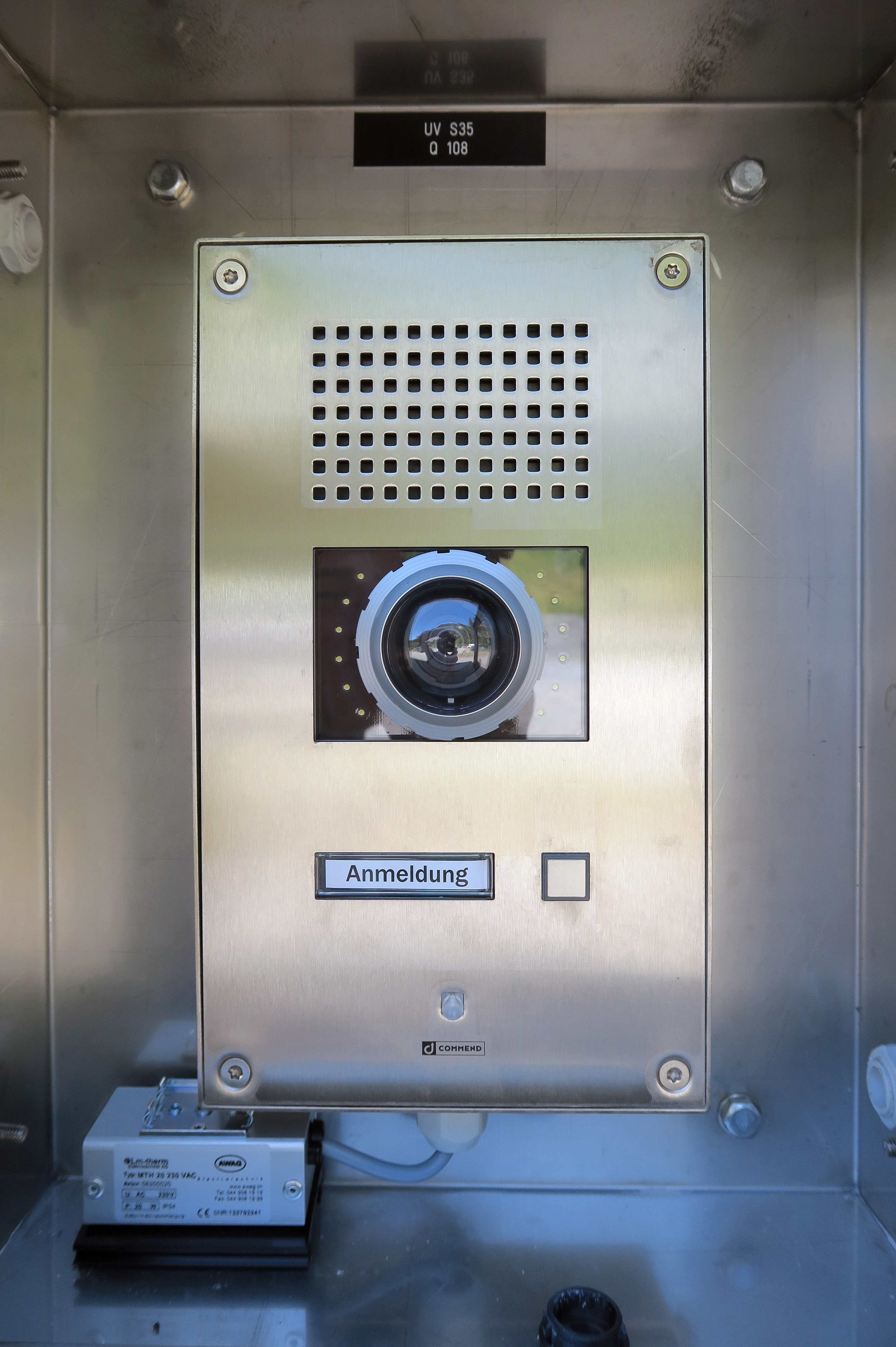 At the access to a large bunker complex near Kandersteg. Switzerland, July 10, 2015.